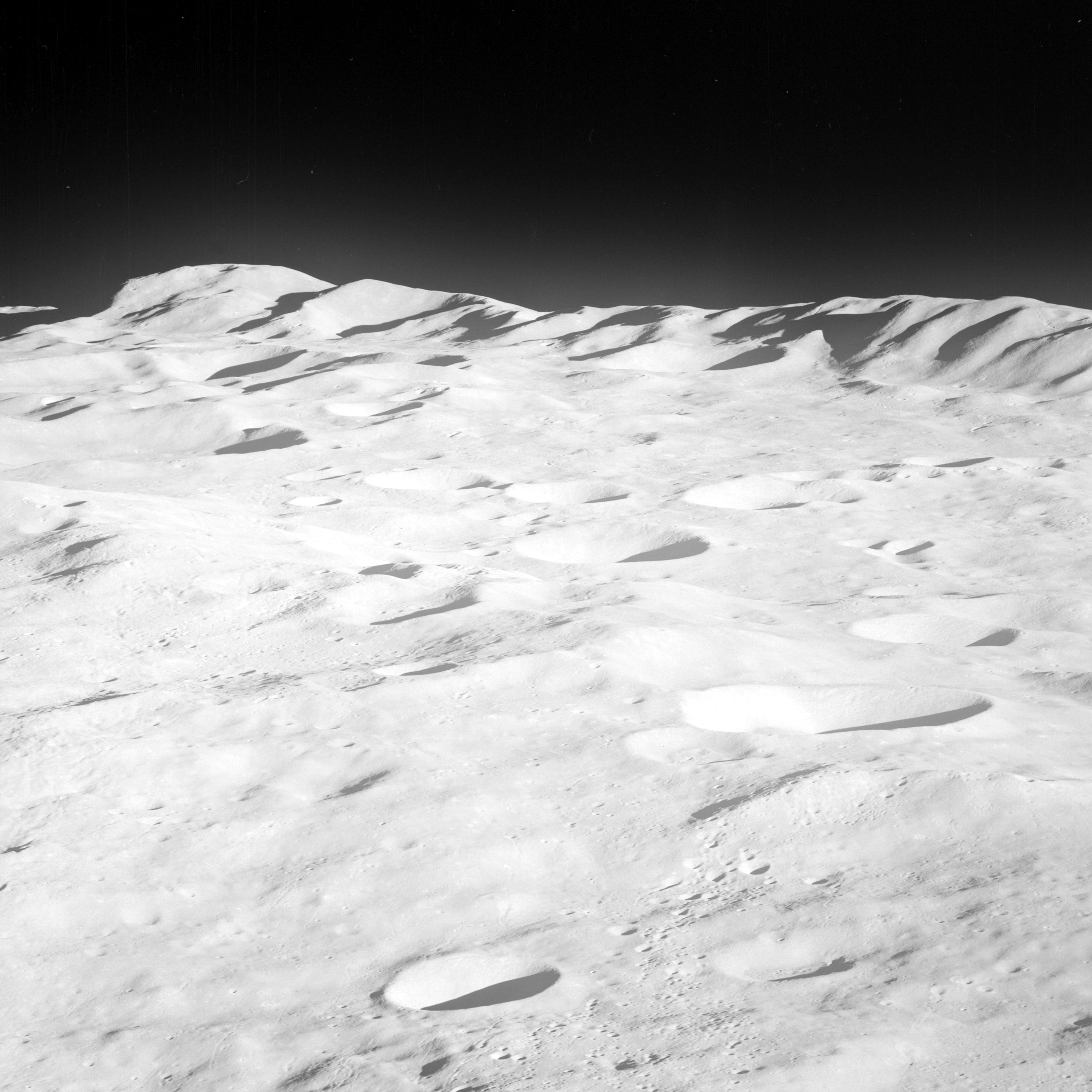 Oblique view of mountains of north rim of South Pole-Aitken Basin, on the far side of the moon.